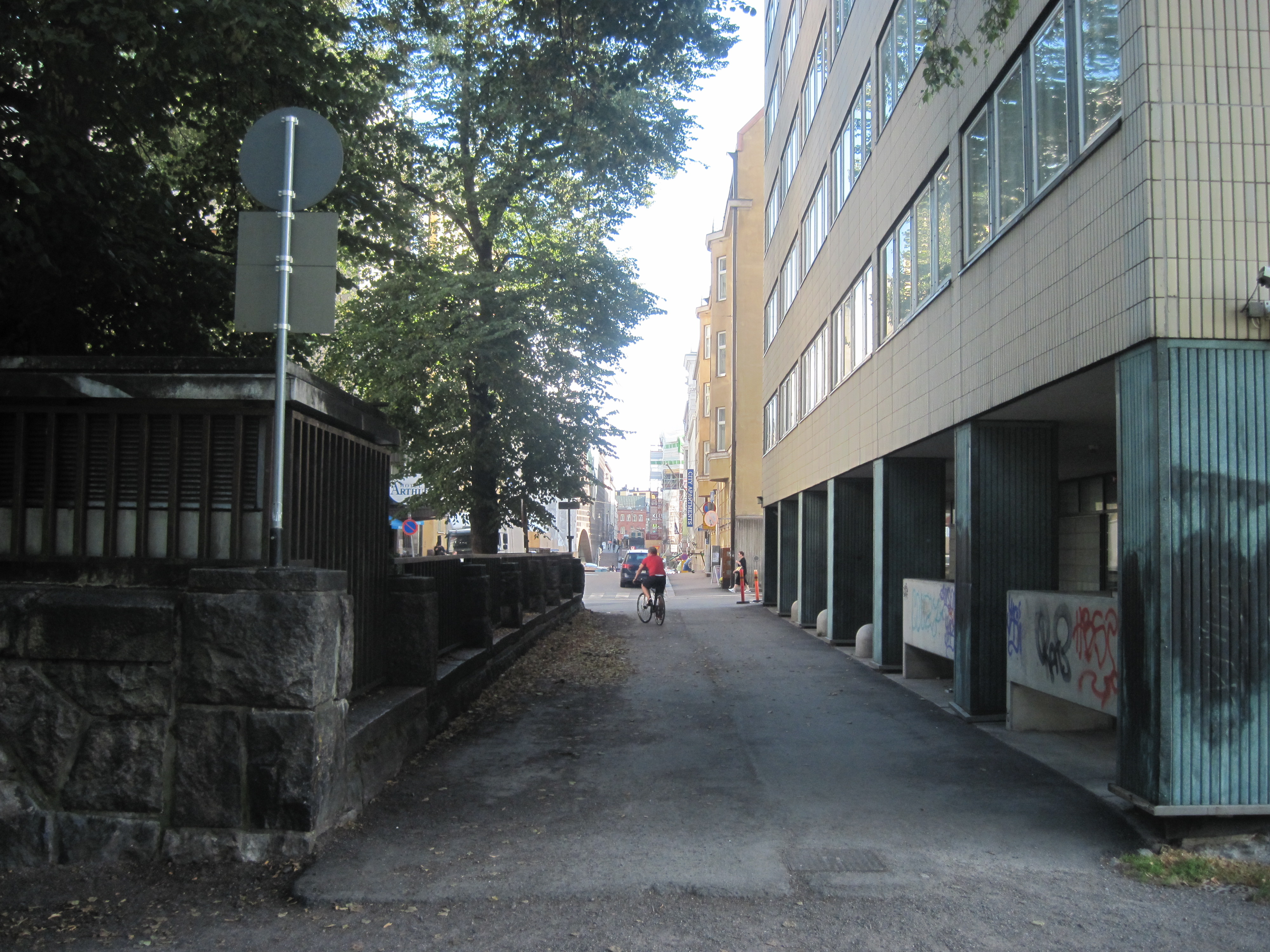 Vuorikatu in Helsinki, as seen from is Northern end at the border of Kaisaniemi Park